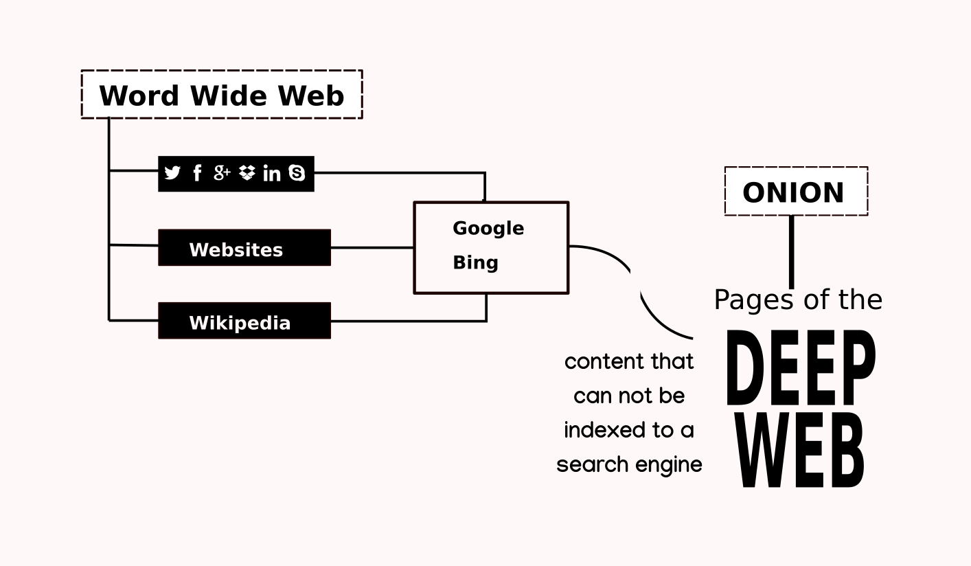 Deep web diagram